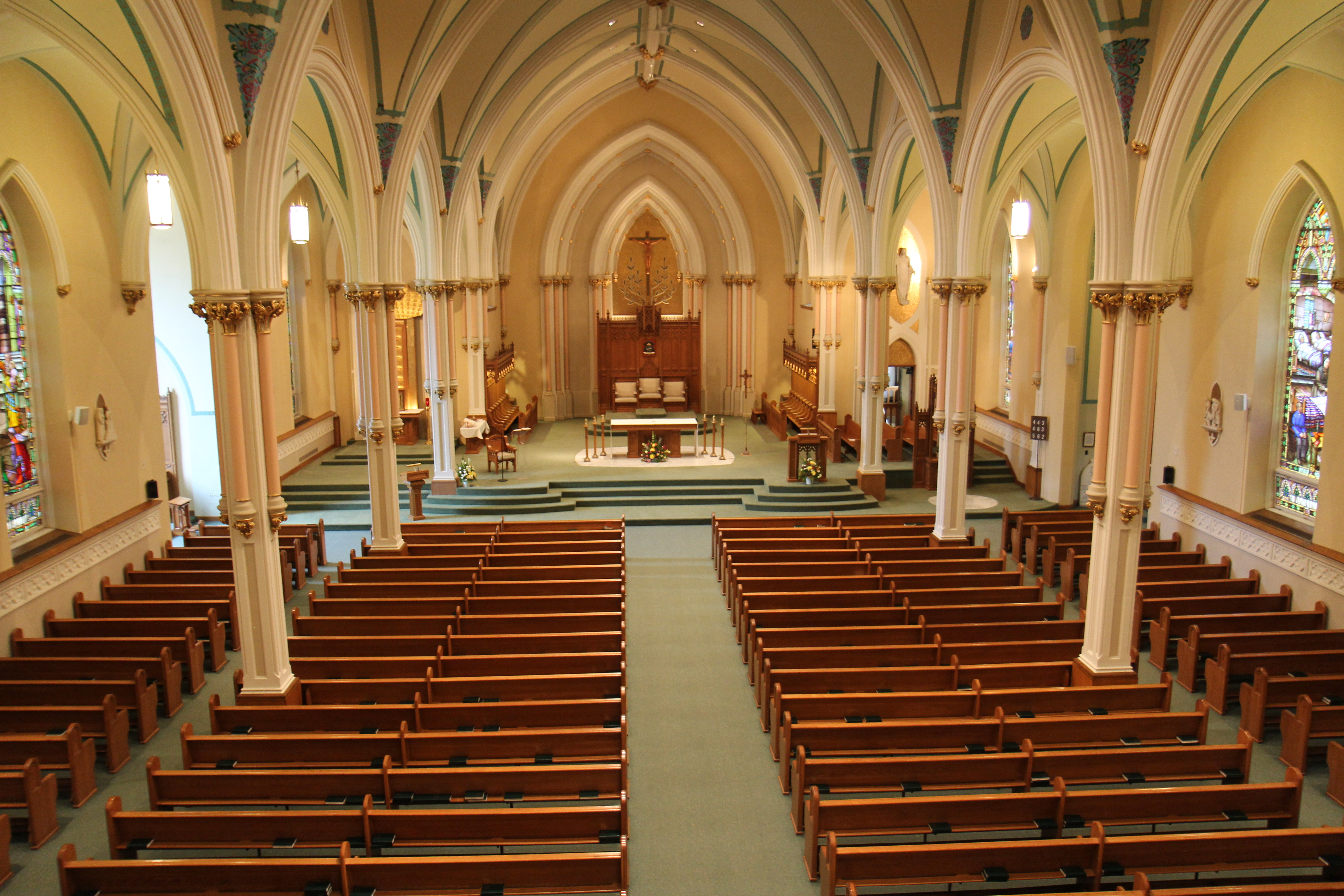 The interior of St. Columbkille Cathedral from the choir loft